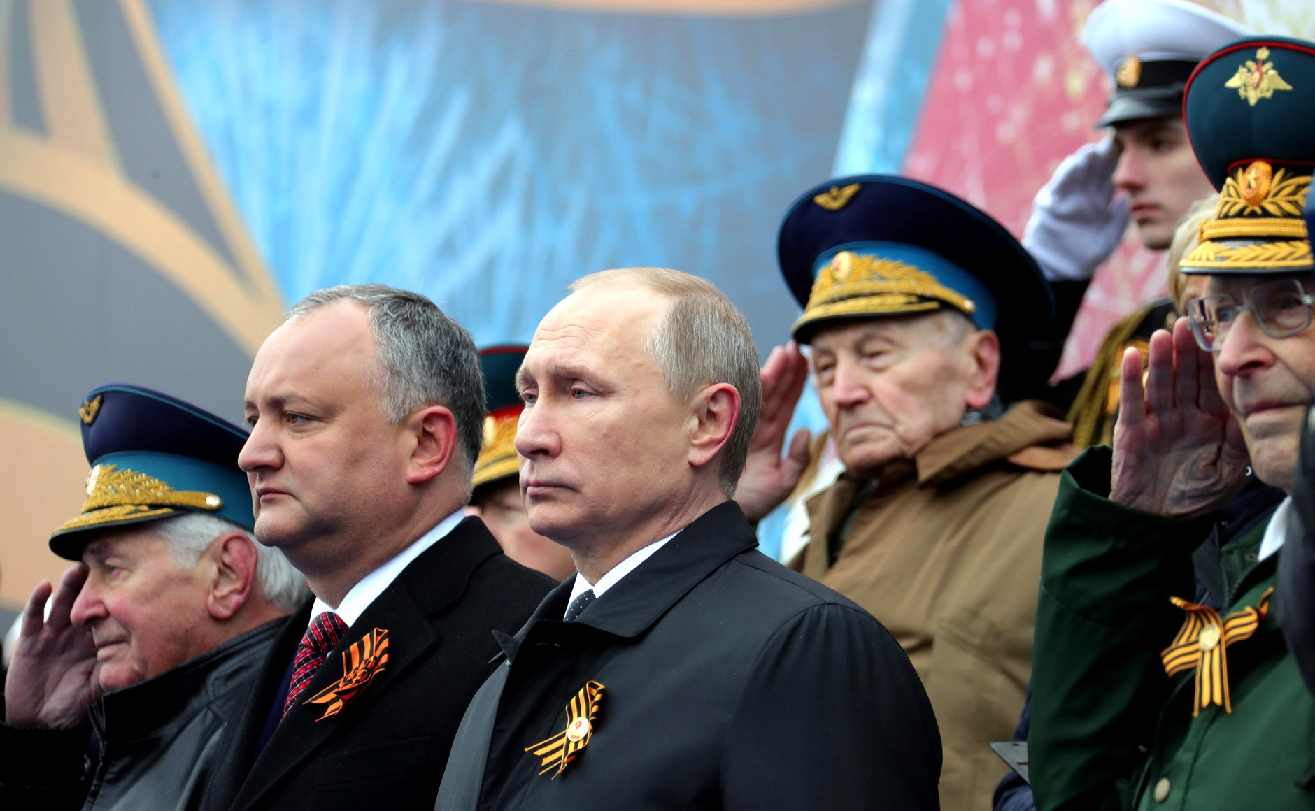 Military parade on Red Square 2017-05-09